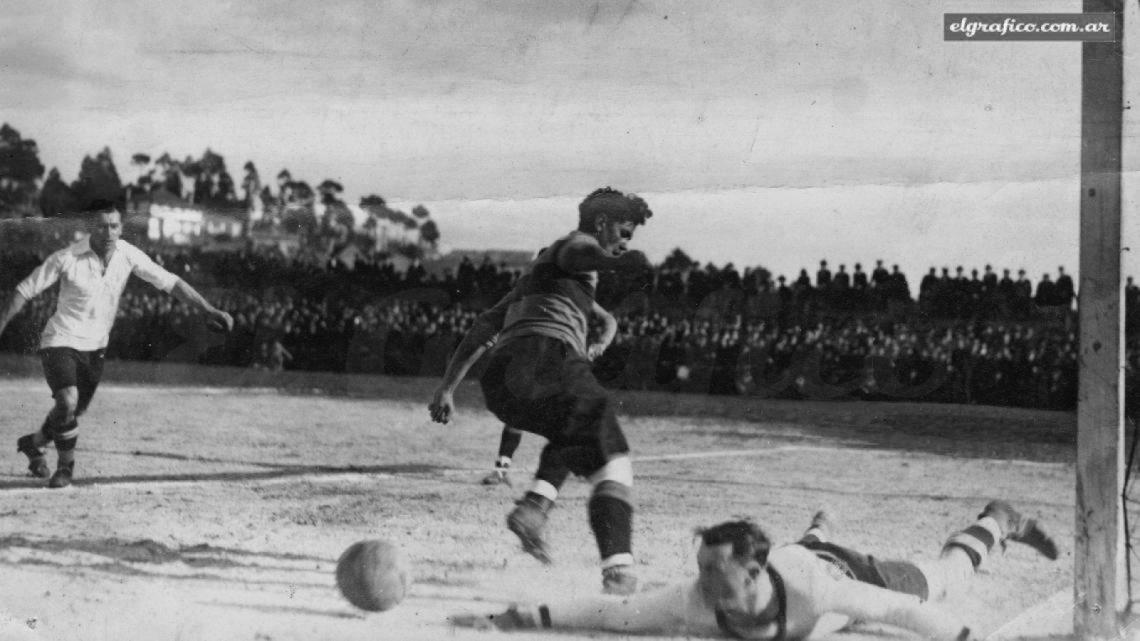 Boca Juniors v. Celta de Vigo during the successful tour on Europe, in 1925.